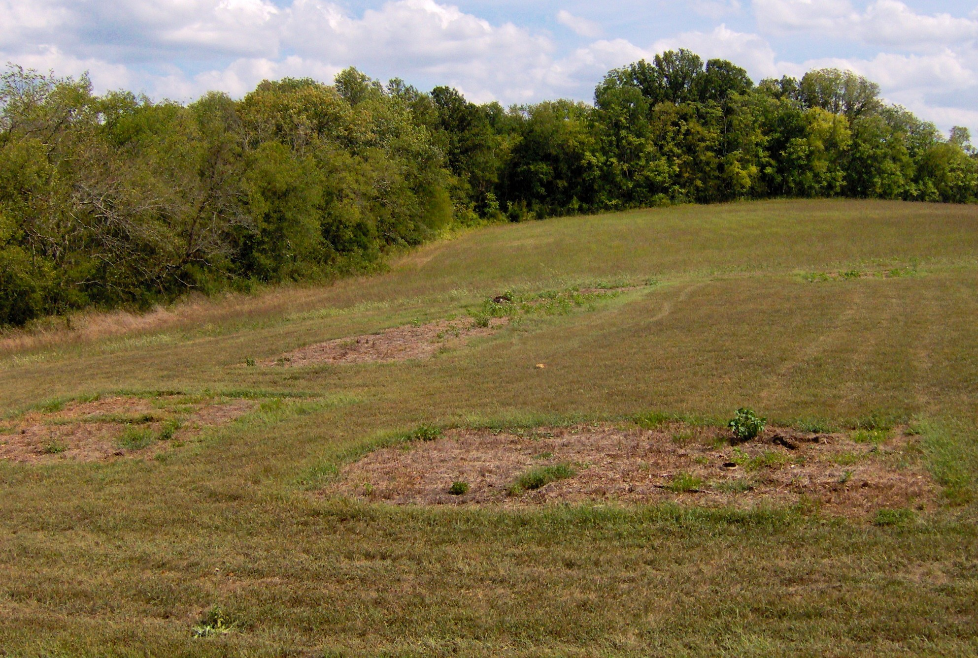 The site of Bledsoe's Station in Sumner County, Tennessee, in the southeastern United States. Bledsoe's Station was a frontier fort built in the early 1780s to protect settlers from Native American attacks. Archaeological excavations in the late 1990s verified the fort's location. The fort is no longer standing, but excavation trench lines give visitors an idea of the fort's layout.